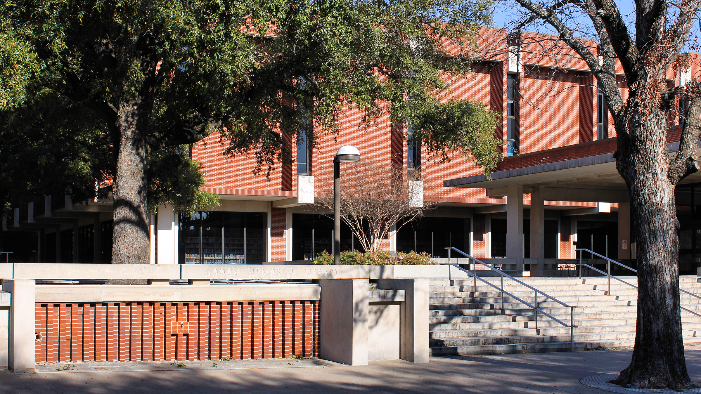 The Moody Memorial Library on the Baylor University campus in Waco, Texas, United States.